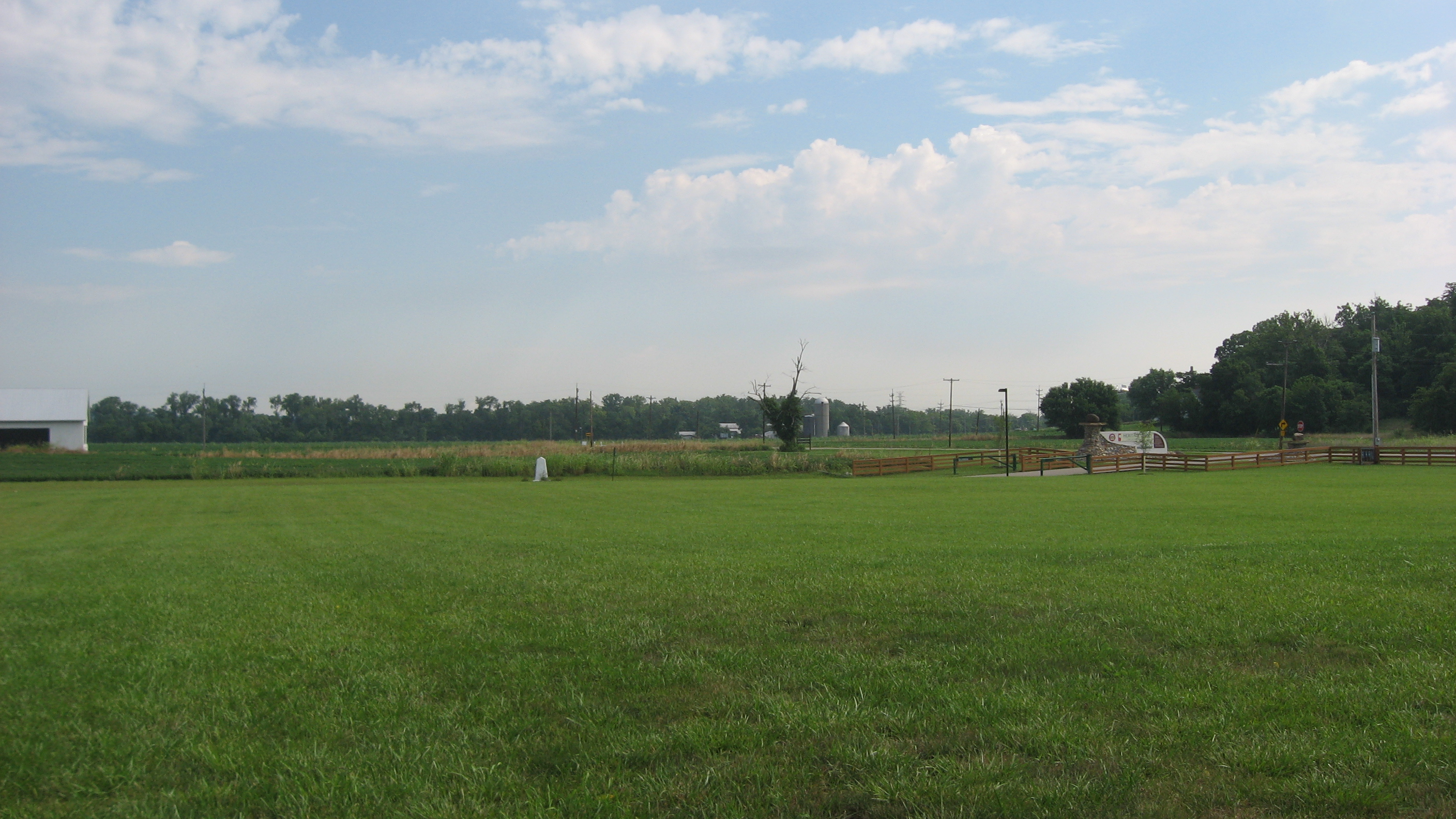 Fields on the site of Fort Dunlap, located in a township park along Miami River Road in Colerain Township, Hamilton County, Ohio, United States. As one of the first white settlements in the Cincinnati area, it is a valuable archaeological site and has accordingly been listed on the National Register of Historic Places.